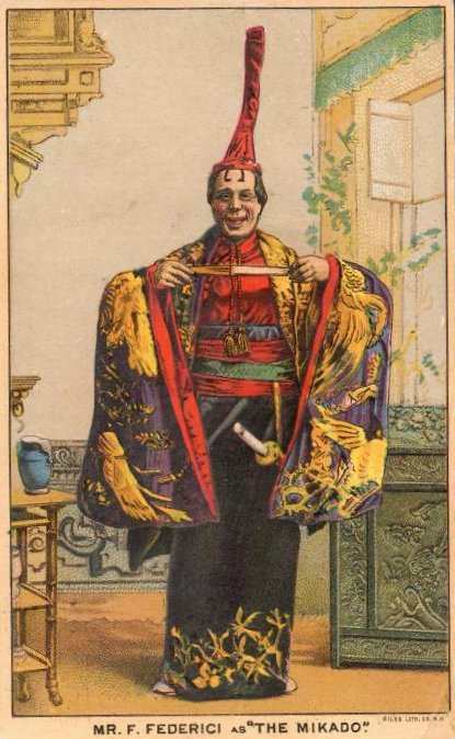 Scan of a Straiton & Storm Cigar Trade Card of Frederick Federici (1850–1888) in the title role in The Mikado (1885)